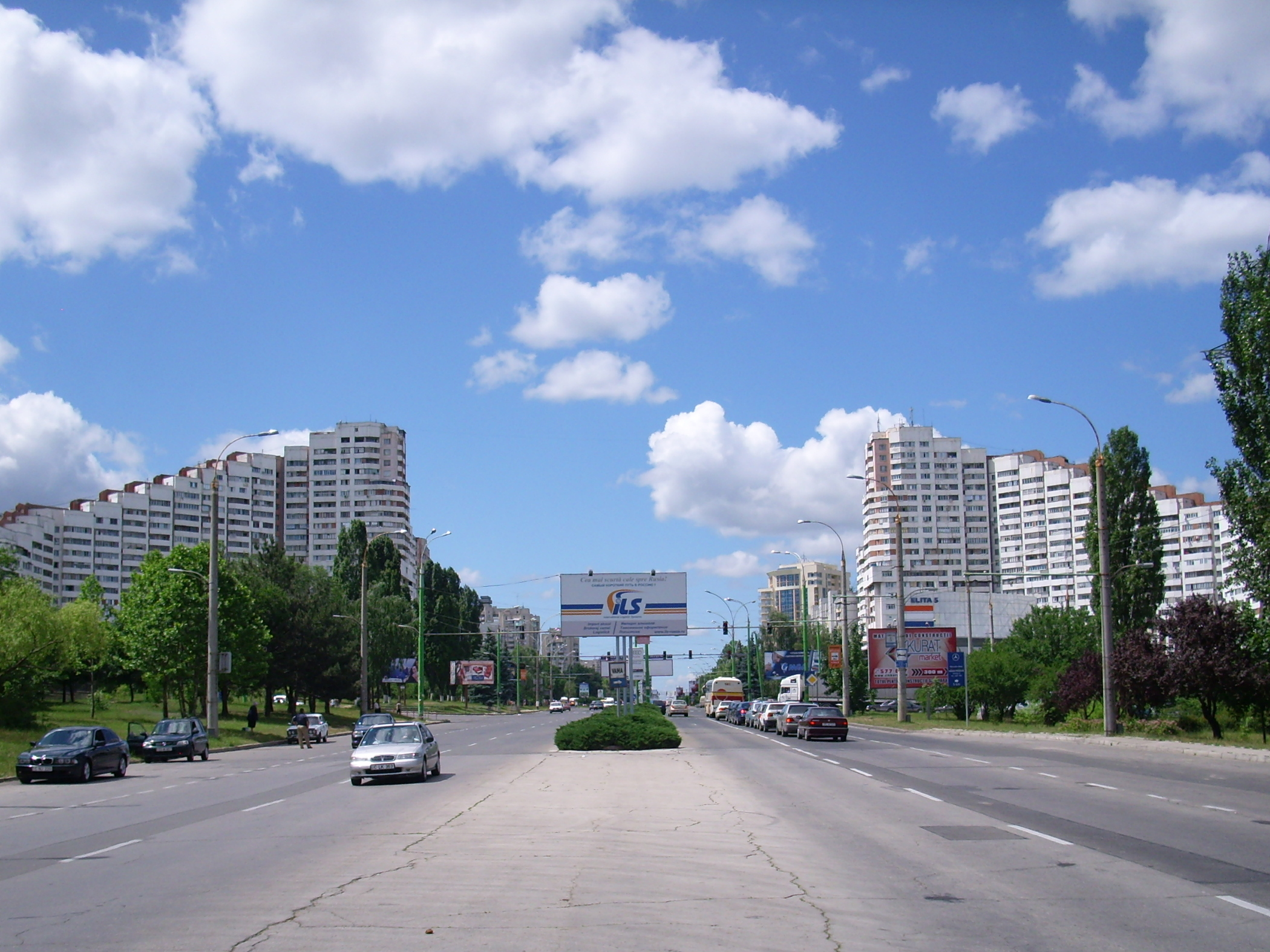 Chisinau / Kishinev, Moldova: gates of the city and Ernst & Young CIS ad - Portile orasului - architects Iu.Skvortova, A. Markovici and A.Spasov